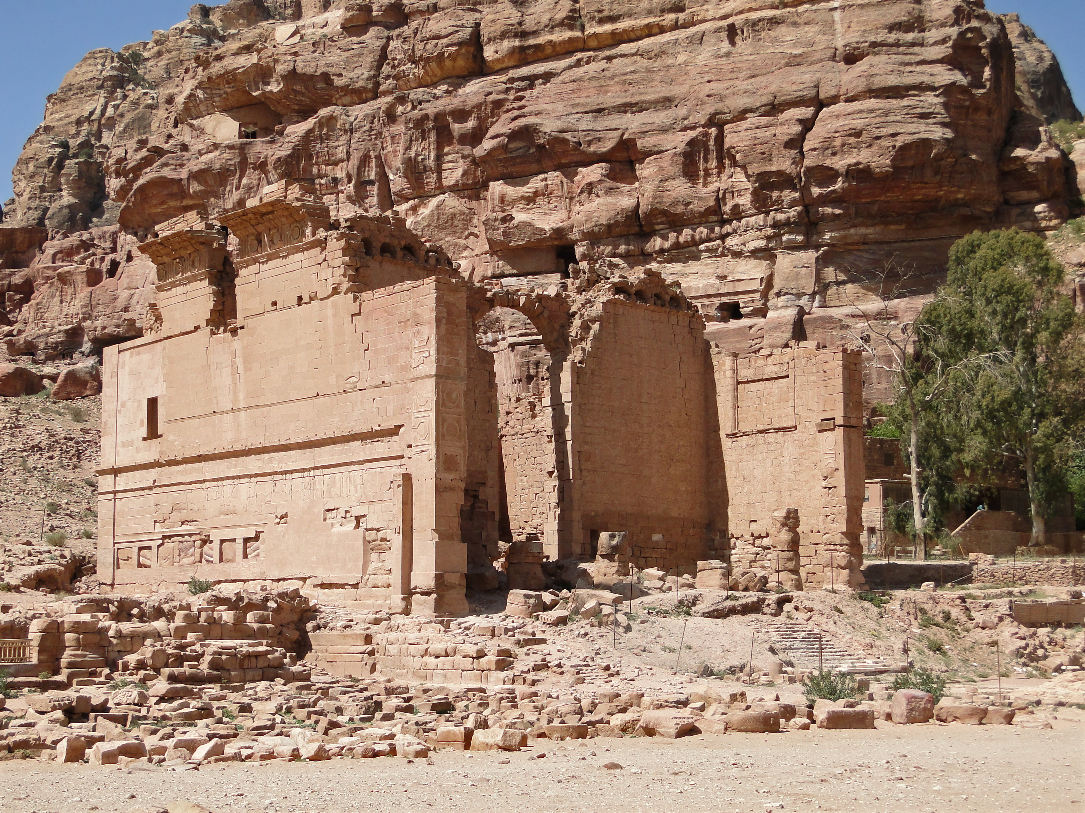 The Qasr al-Bint, Petra, Jordan